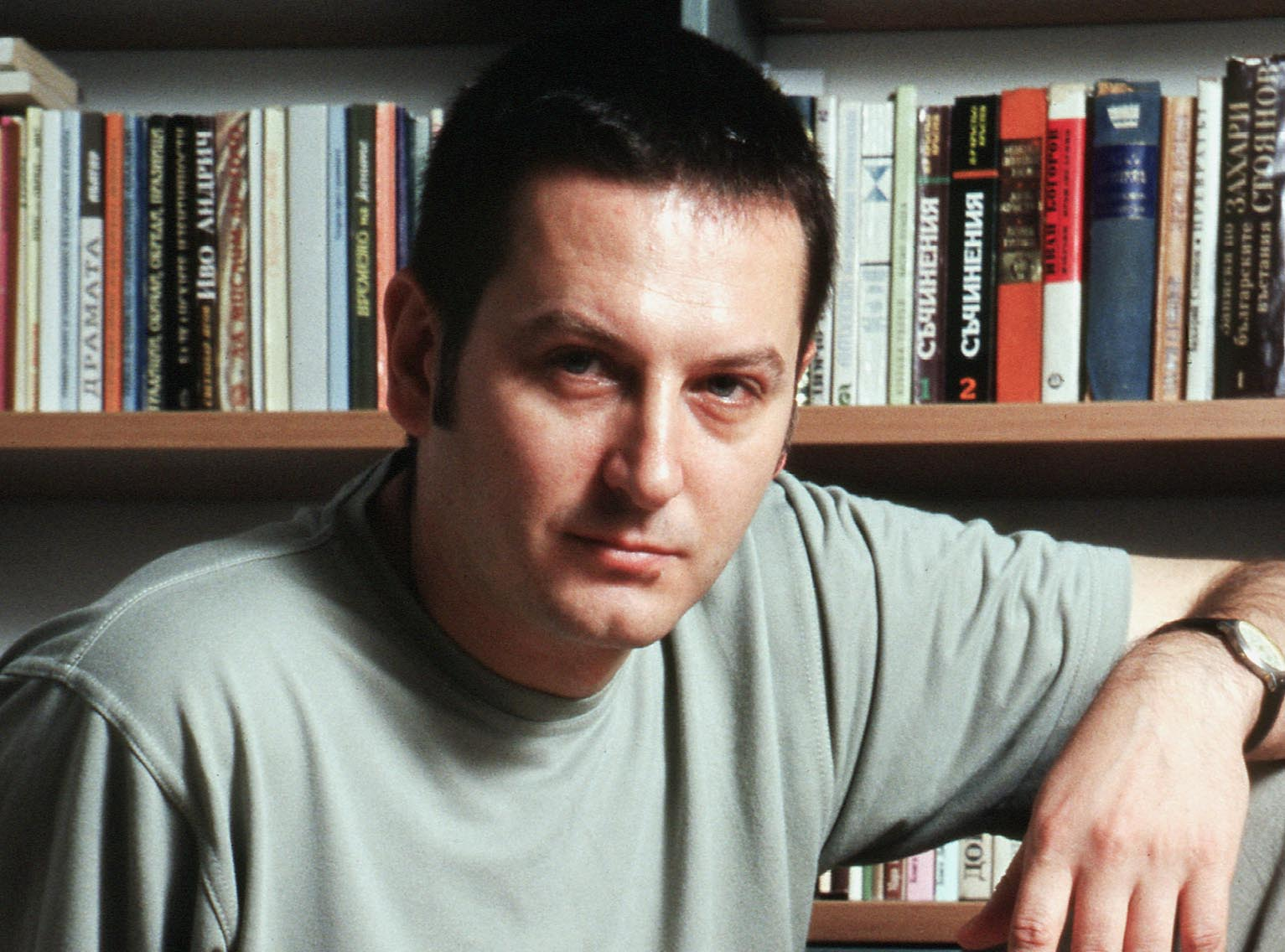 Georgi Gospodinov, Bulgarian writer, poet and journalist. Image taken and reproduced with his permission